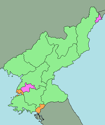 area map of Directly Governed Cities in North Korea Category:North Korea